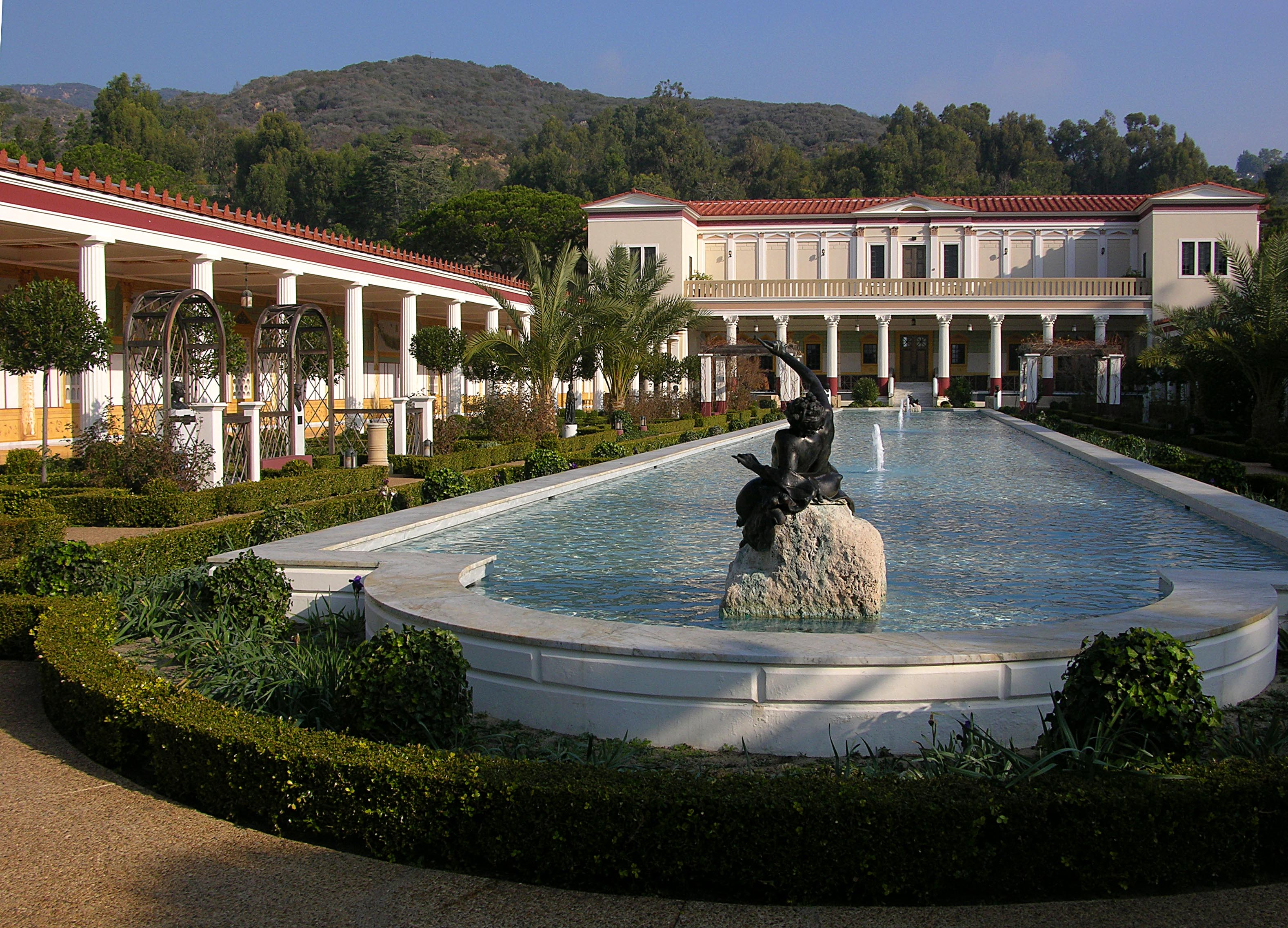 The outer Peristyle Garden of the Getty Villa Roman gardens, in Pacific Palisades, Los Angeles. The Getty Villa is designed to replicate an actual Ancient Roman villa buried in a volcanic eruption of Mt. Vesuvius. The museum's exterior, gardens, fountains, statuary, and plants are reproductions of the Roman villa. Statuary and art objects inside the museum are original works of art from the ancient Etruscan, Greek, and Roman cultures.